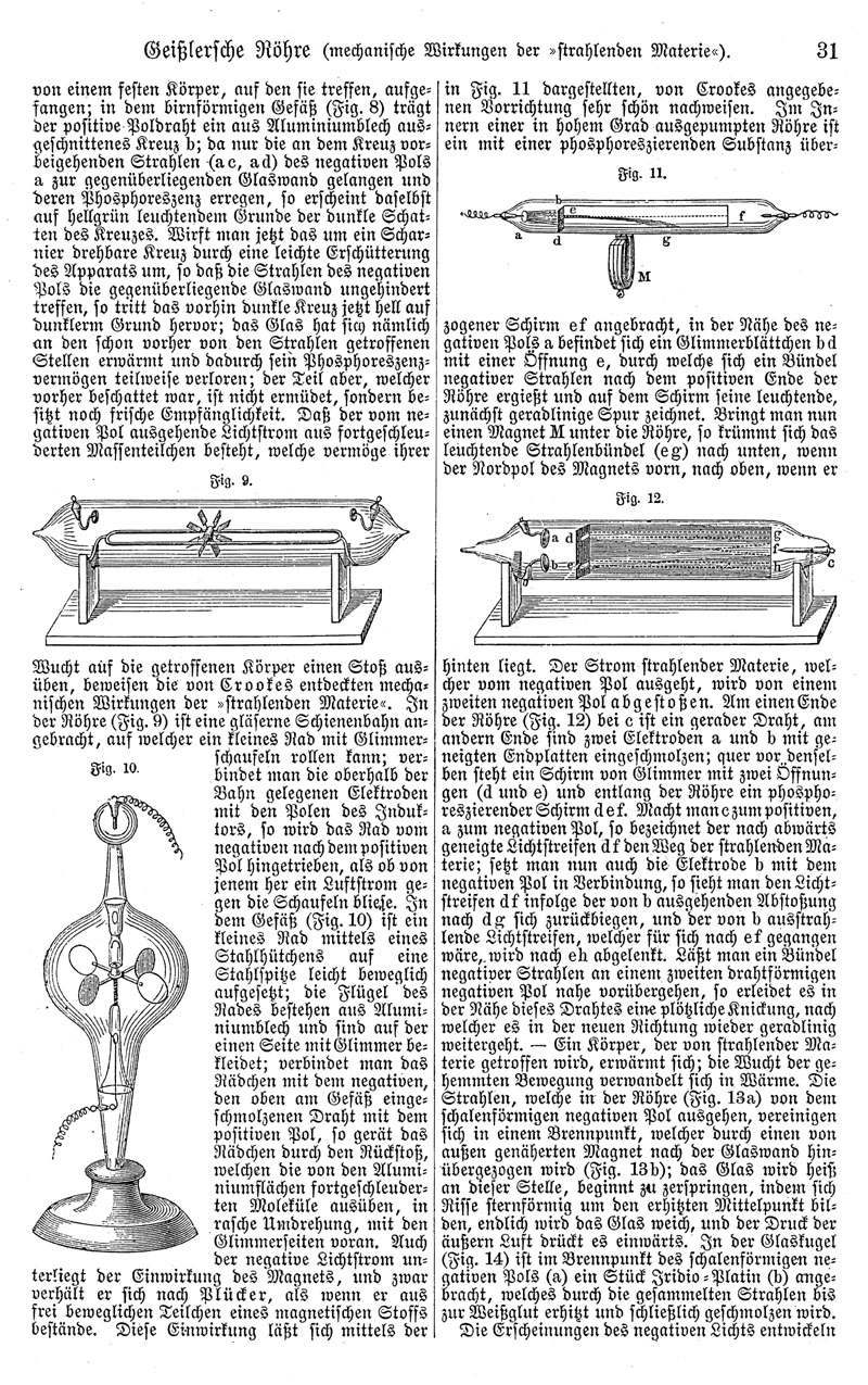 This is page 31 of 1028, in Volume 7 of the German illustrated encyclopedia Meyers Konversationslexikon, 4th edition (1885-1890), fraktur font.